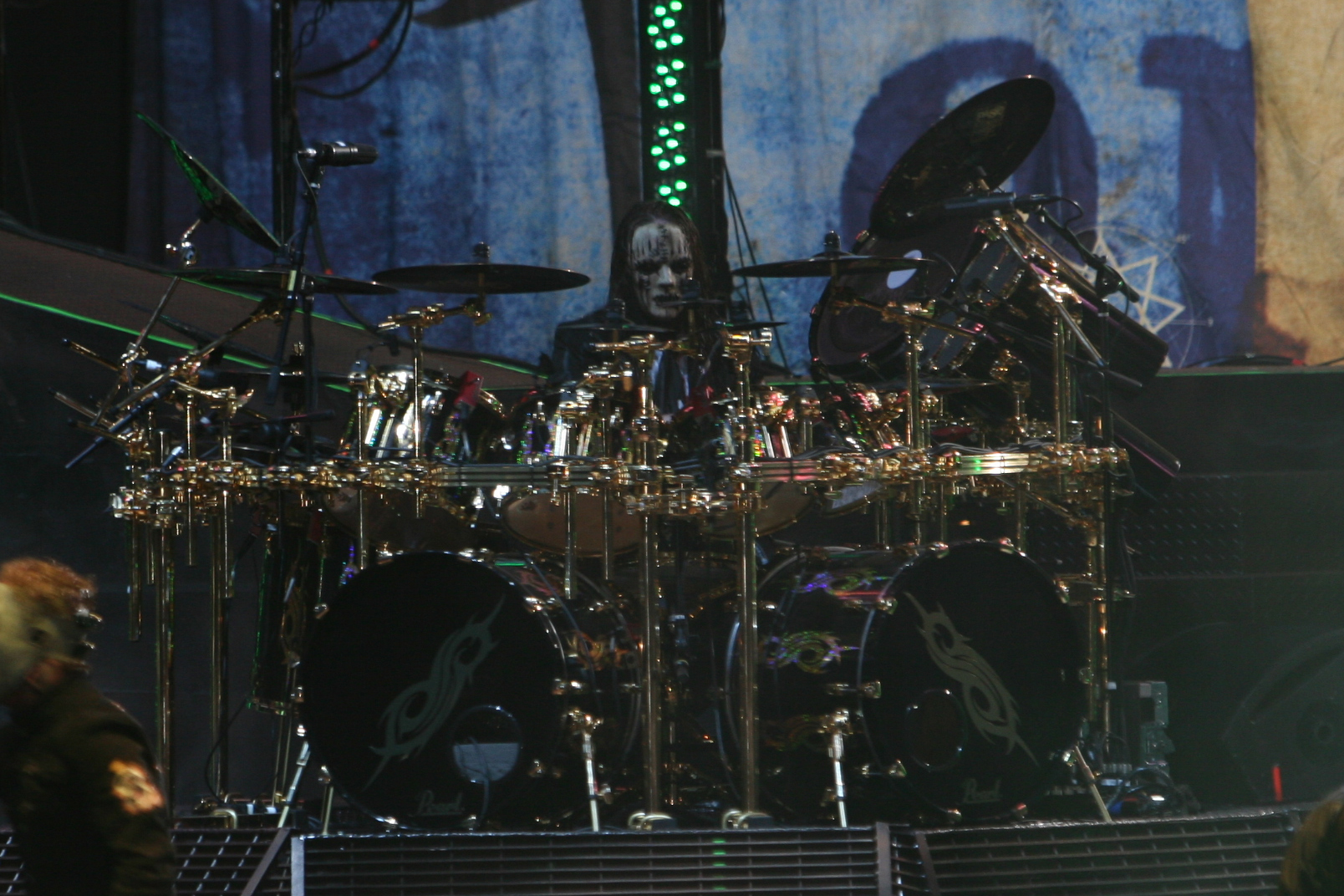 Drummer Joey Jordison of Slipknot at the mayhem festival 2008.